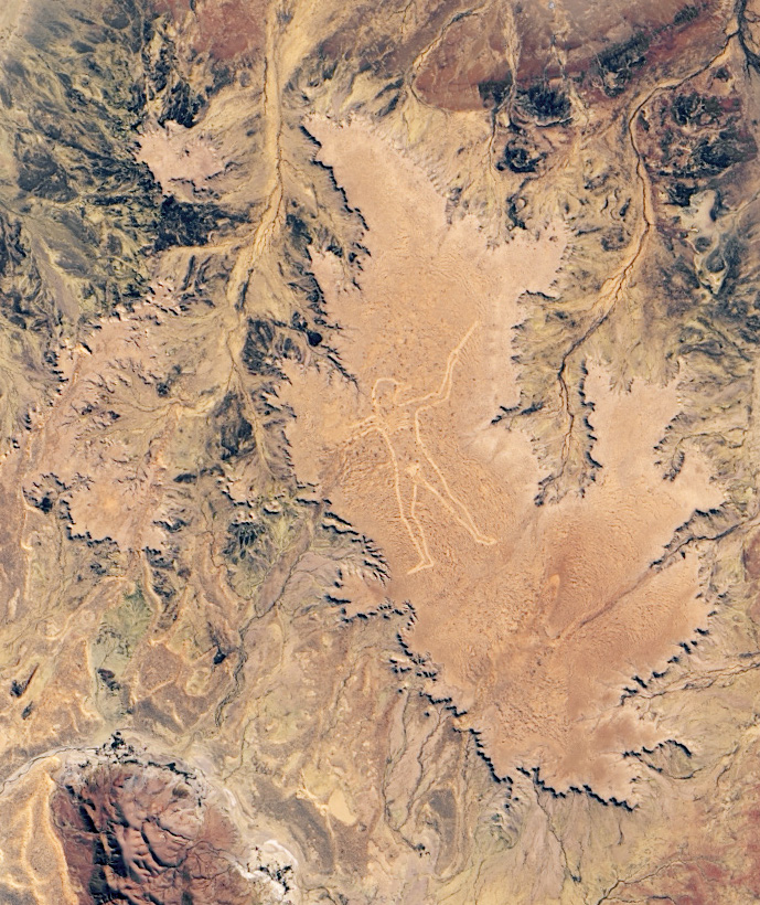 Maree Man South Australia, 28 June 1998. © Commonwealth of Australia 2004. This picture of the "Marree Man" was produced from a Landsat 5 Thematic Mapper image acquired on 28 June, 1998 (WRS 99-80), using bands 1,4,7.